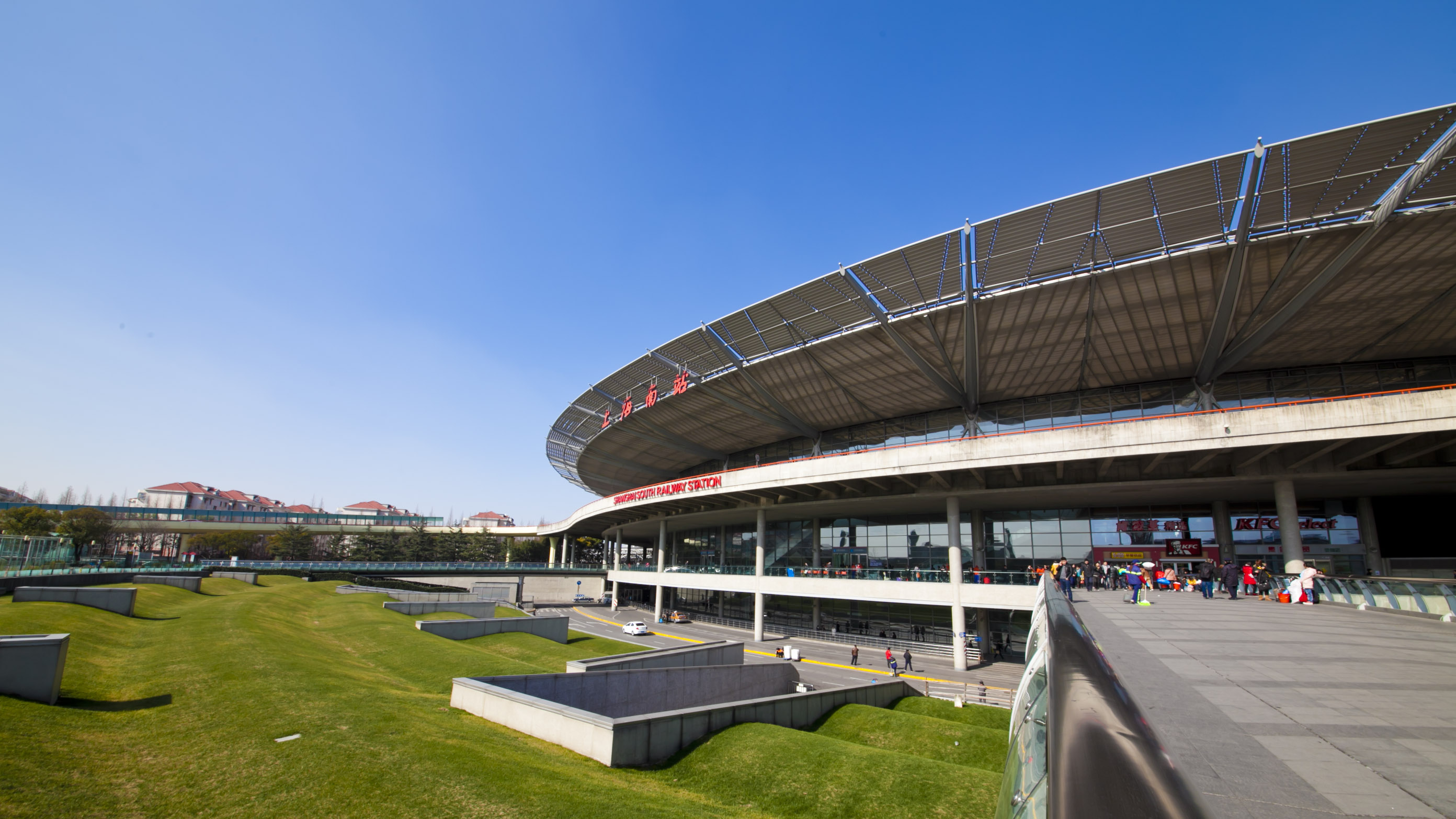 outside Shanghai South Railway station